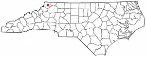 Category:North Carolina Dot Maps